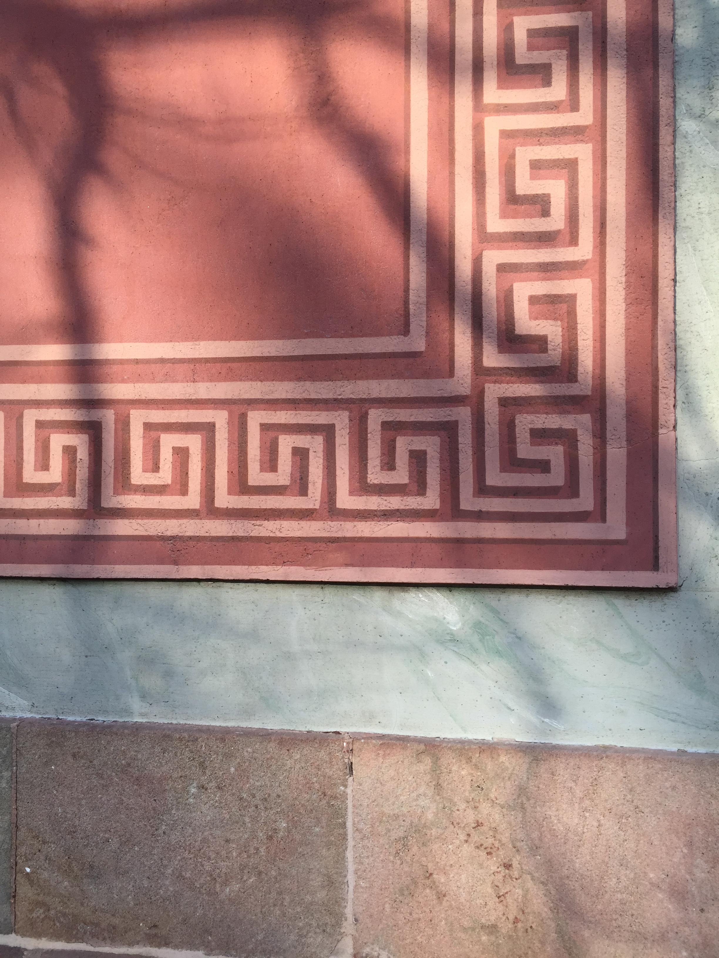 A meander border on Kina Slott in Drottningholms slottspark, 2015